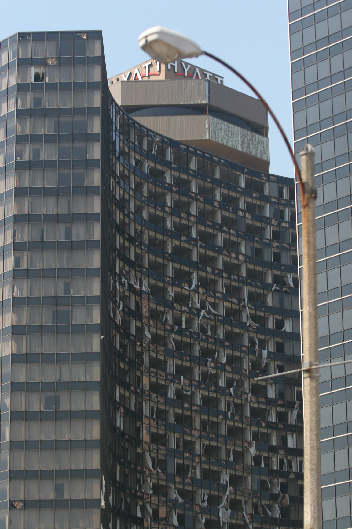 New Orleans Central Business District, some 2 weeks after Hurricane Katrina. Hyatt Hotel, showing windows broken by the storm.